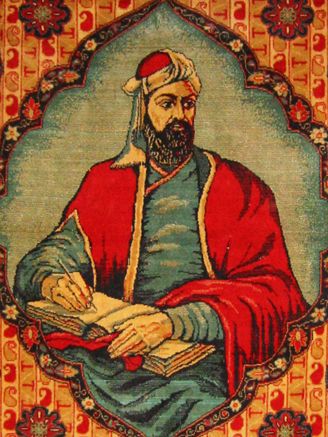 Nezami Ganjavi is pictured on a rug